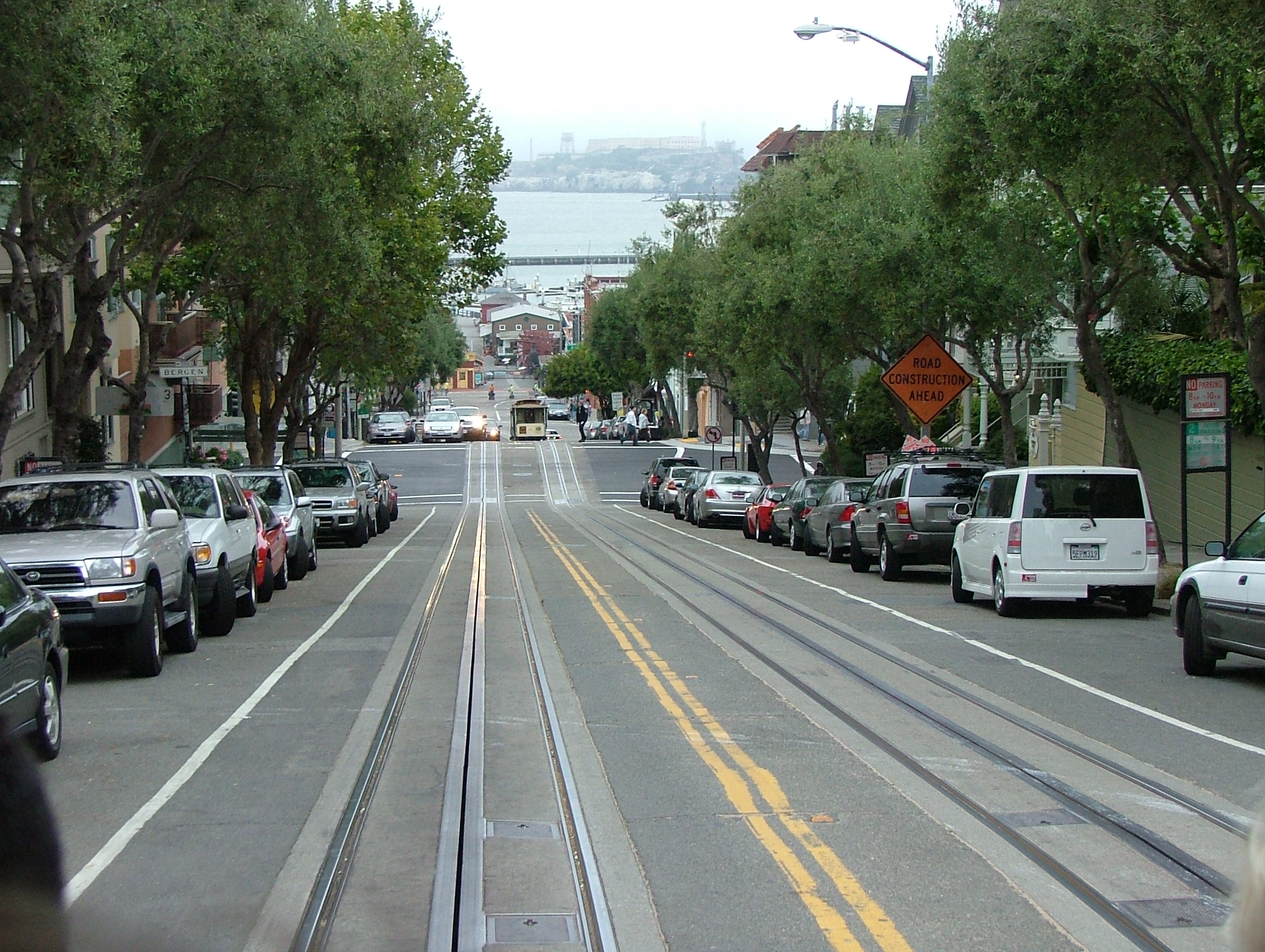 Hyde Street, San Francisco seen from cable car